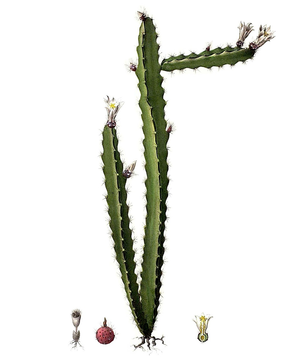 Lepismium ianthothele